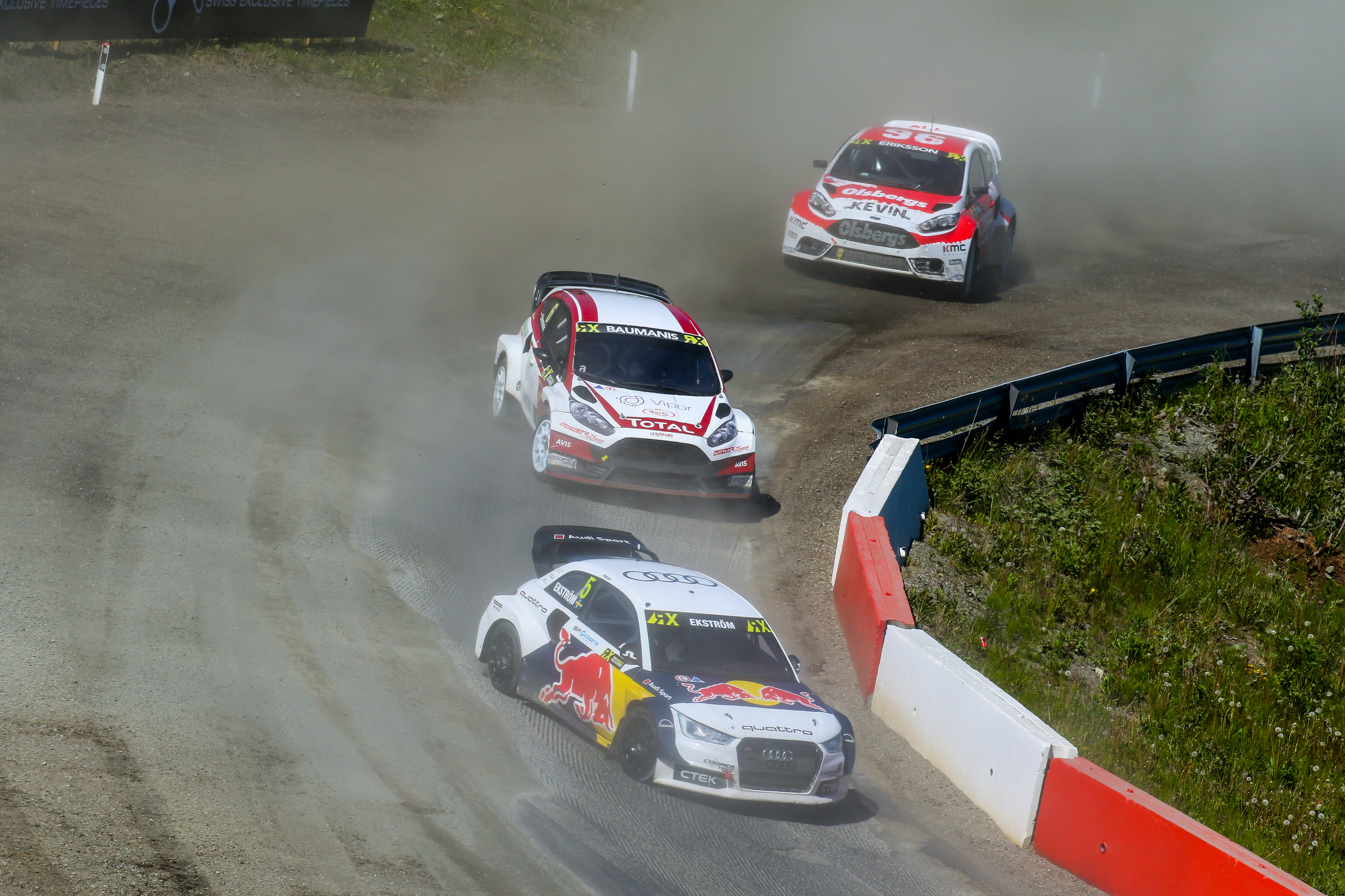 2016 FIA World Rallycross Championship / Round 05, Hell, Norway / June 10-12 2016 // Worldwide Copyright: Colin McMaster/EKS/McKlein